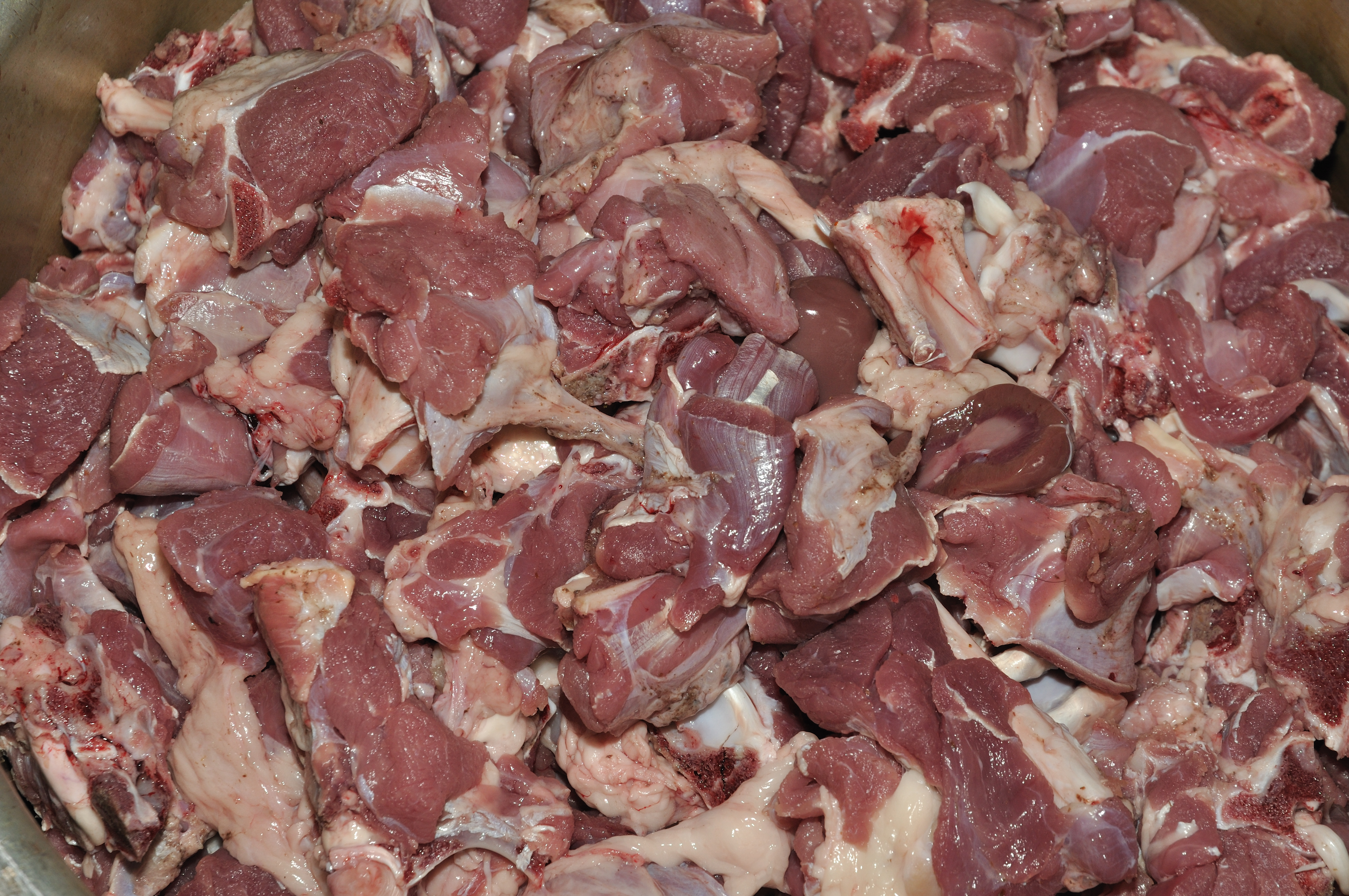 Fresh cleaned mutton (castrated male goat meat) ready for cooking curry. It is costly food in India. The price at Kolkata is INR 250 per Kilogram as on shooting date.